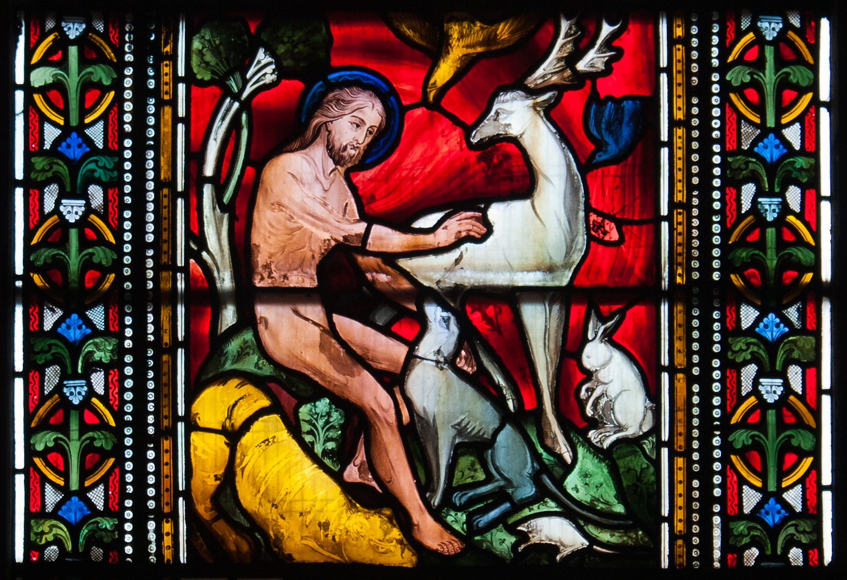 Detail of stained glass window in the west wall of the first bay of the north aisle, depicting Adam naming the animals. Cartooned by John Hardman Powell (1827–1895), executed by Hardman & Co.